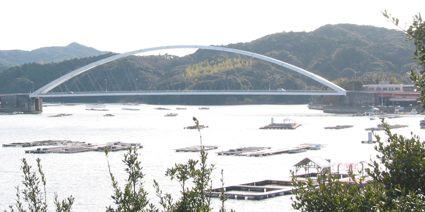 The Onoura Bridge (Onoura-ohashi), a Nielsen-Lohse beam bridge with basket handle arch, on the Mie Prefectural Road Route 128 (aka Pearl Road) over the Onoura Bay in Uramuracho Imaura, Toba City